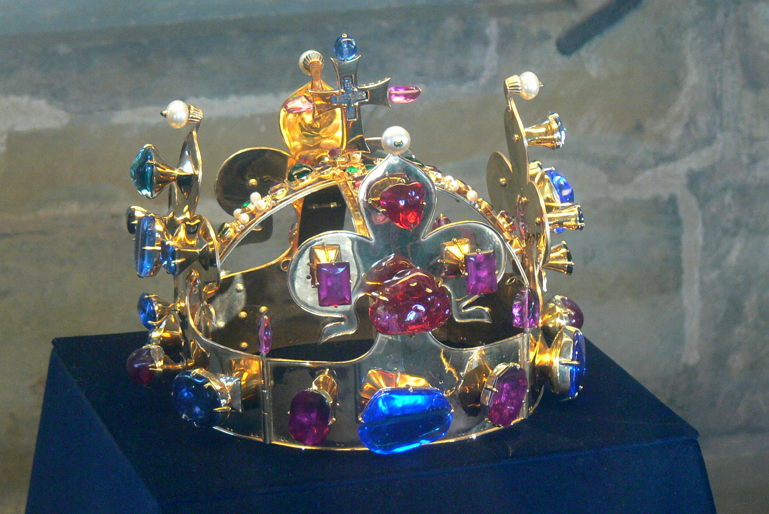 Crown of Saint Wenceslas ( copy ), situated in the Vladislav Hall ( Prague castle ).